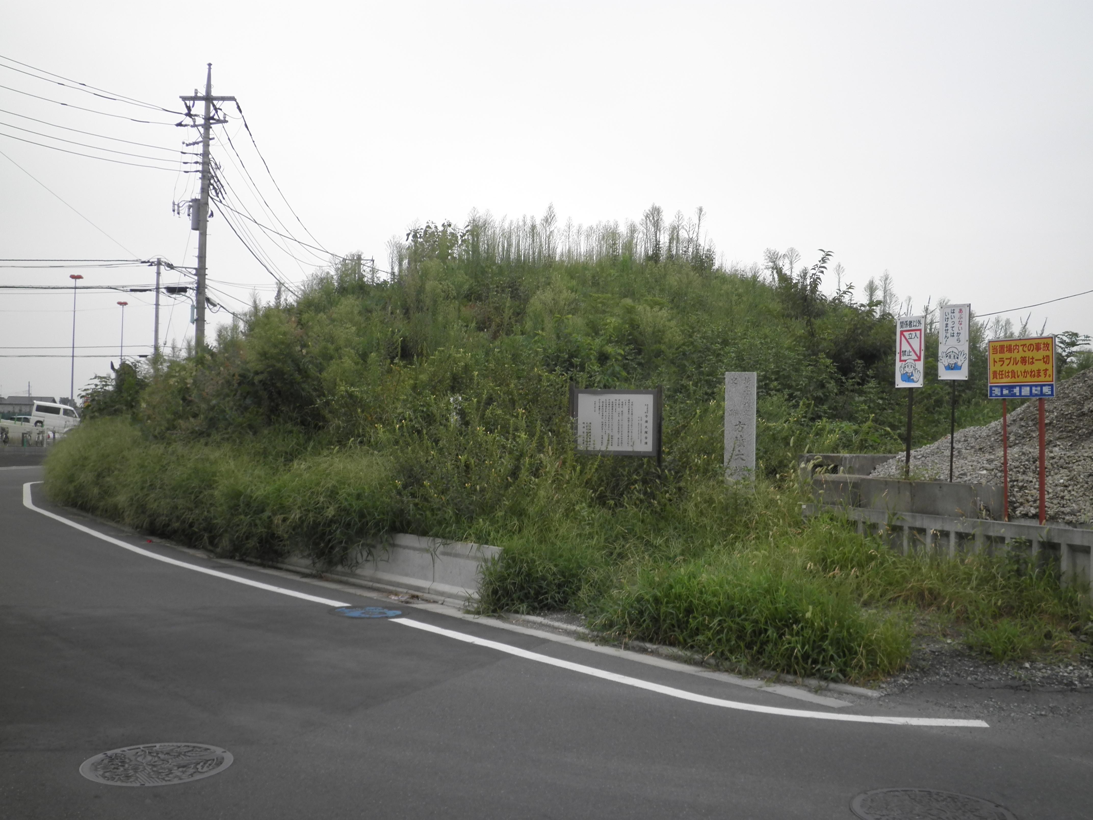 Hofun Otsuka Kofun in Saitama, Japan.